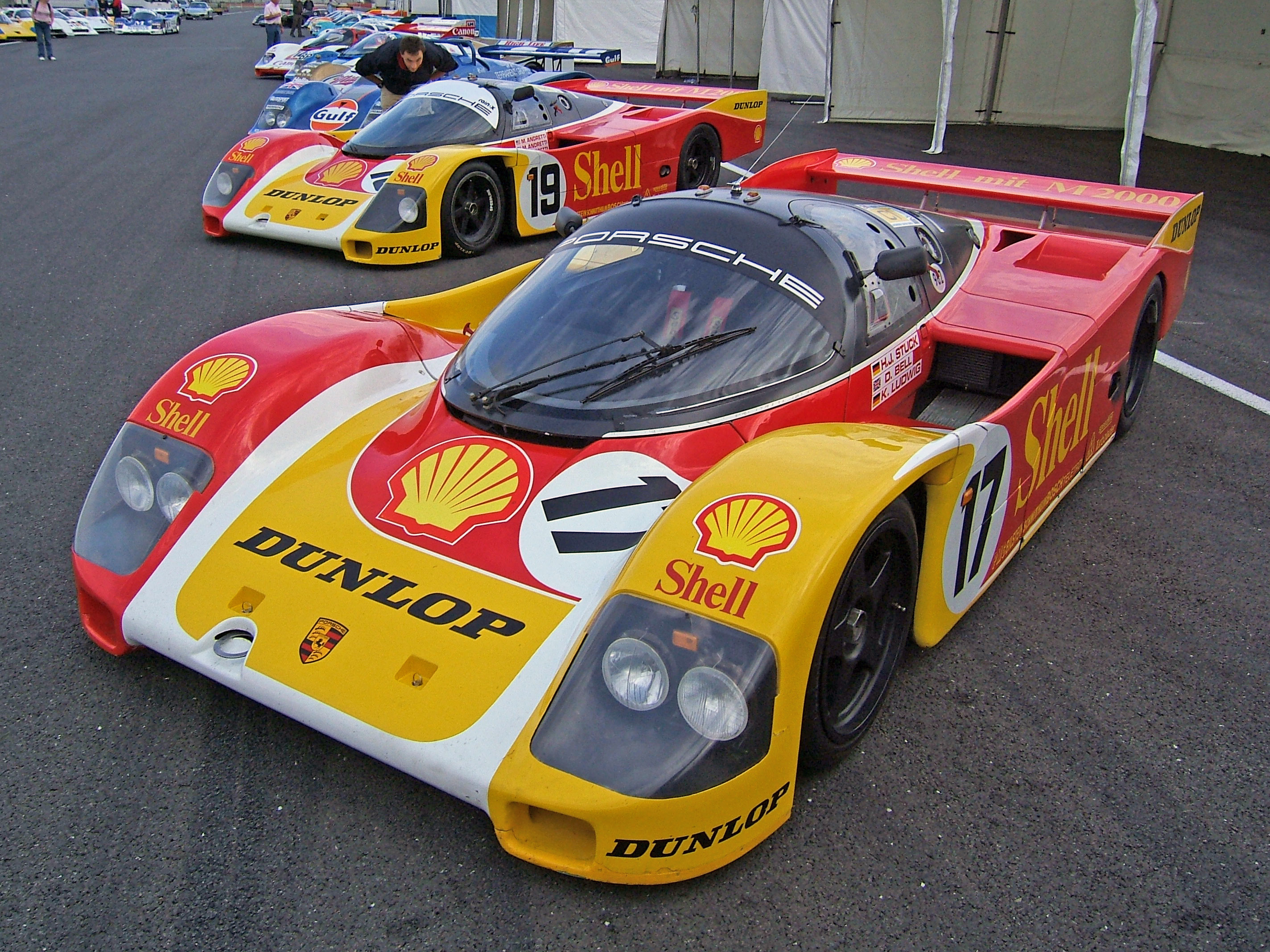 The second placed (#17; Ludwig/Stuck/Bell) and sixth placed (#19; Andretti/Andretti/Andretti) Shell-liveried Porsche 962C cars entered for the 1988 24 Hours of Le Mans race. Photographed at the 2007 Silverstone Classic meeting, Silverstone Circuit, UK.